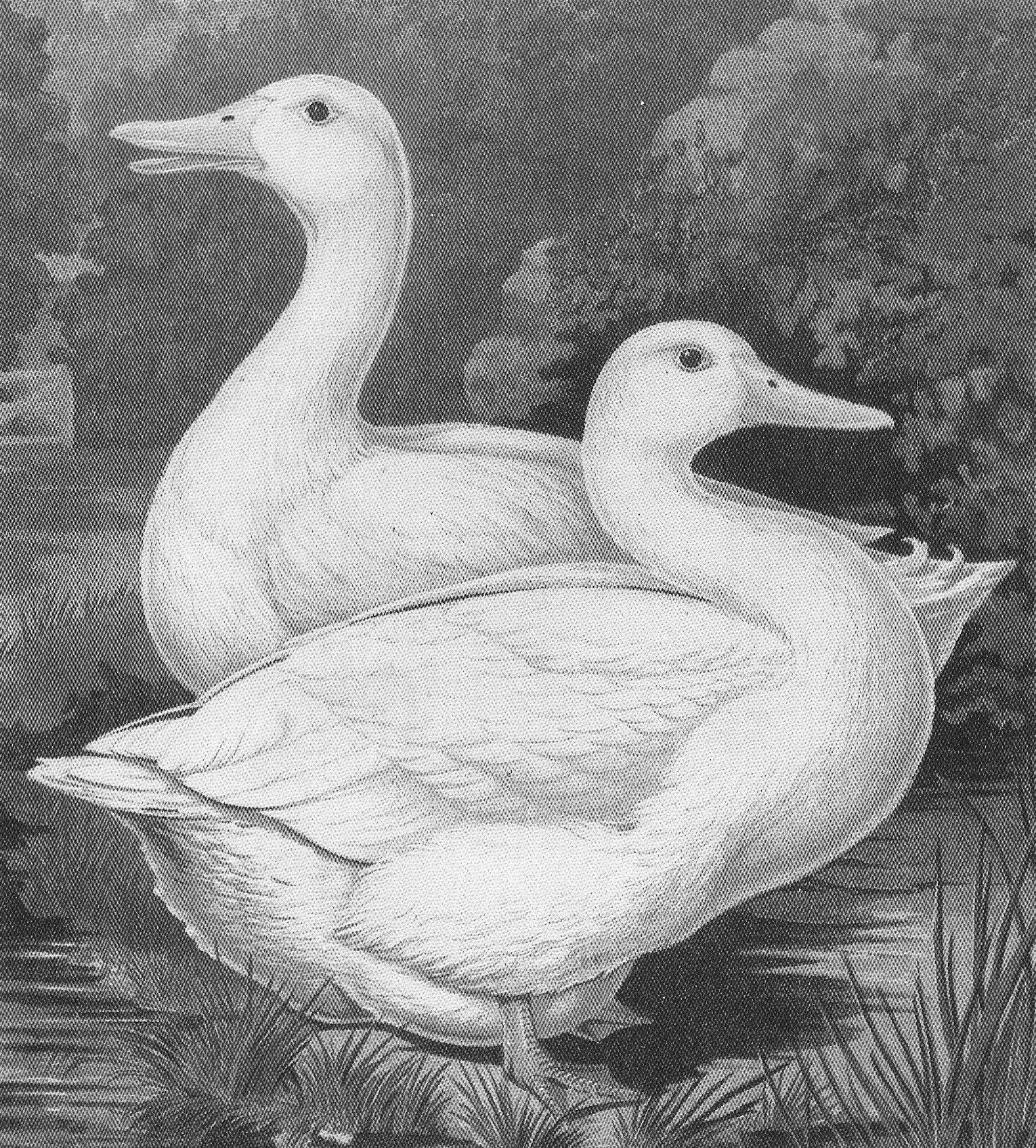 Two prize-winning Aylesbury ducks, bred by Mrs Mary Simmons of Hartwell